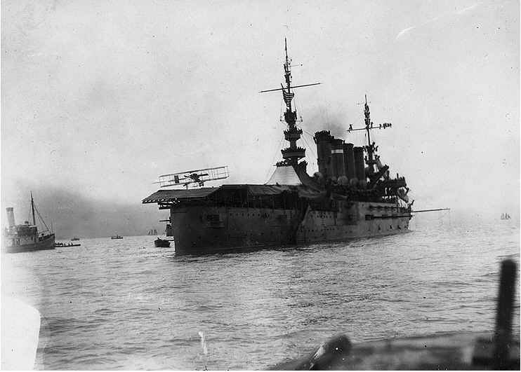 Eugene B. Ely lands his Curtiss pusher biplane on USS Pennsylvania (Armored Cruiser # 4), anchored in San Francisco Bay, California, 18 January 1911